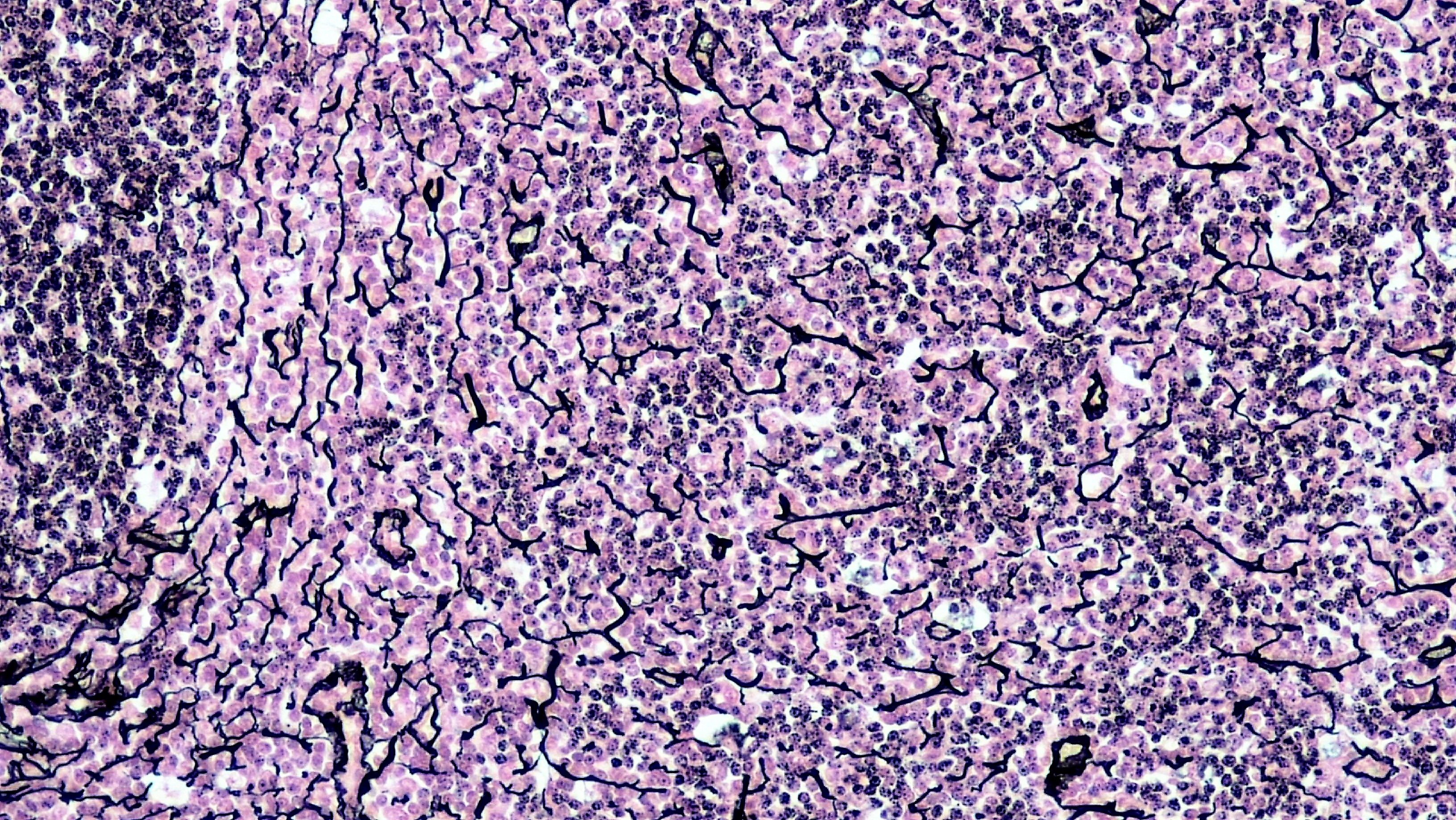 cross section: magnification:200x